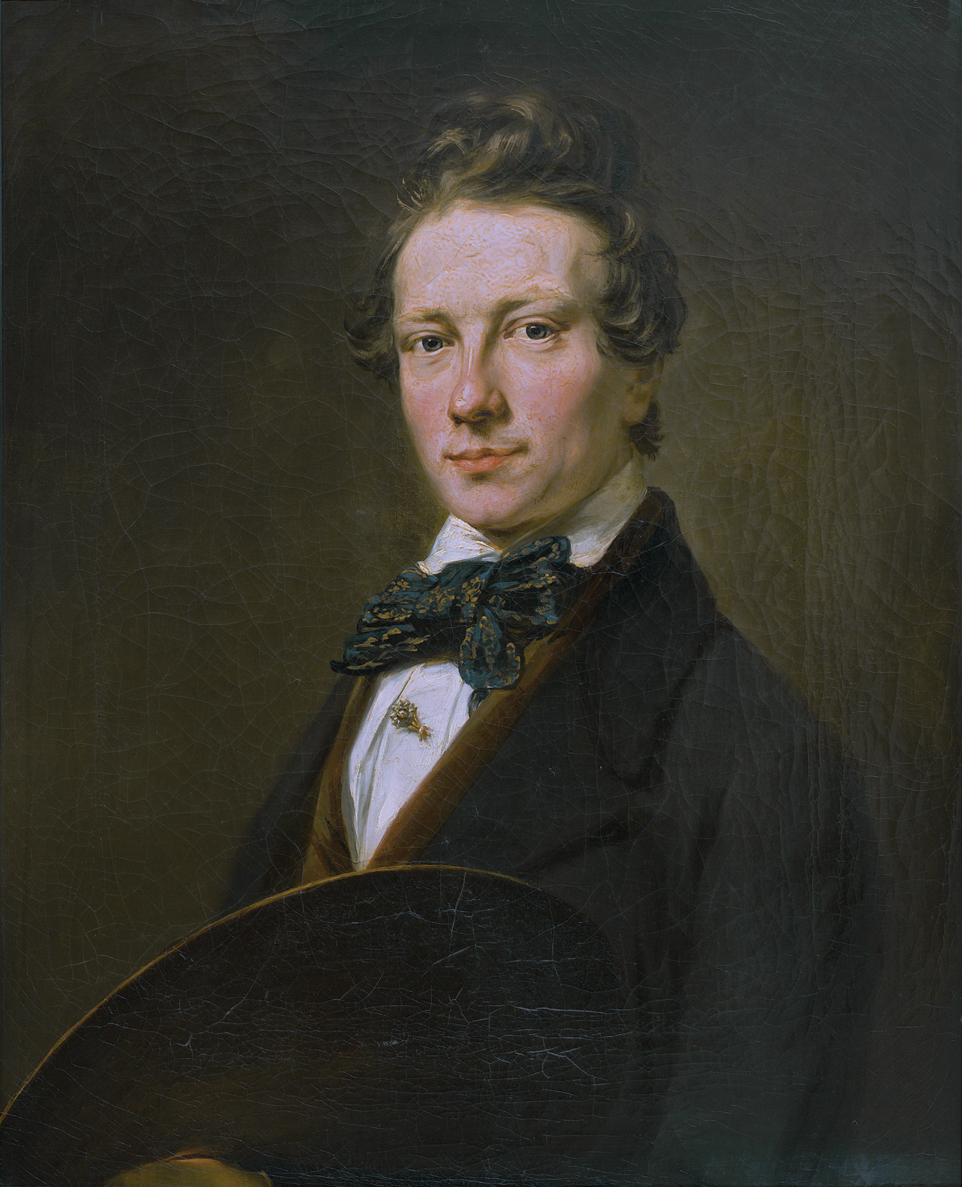 Cornelis Springer (1817-1891) oil on canvas 69 x 58 cm 1825 - 1849